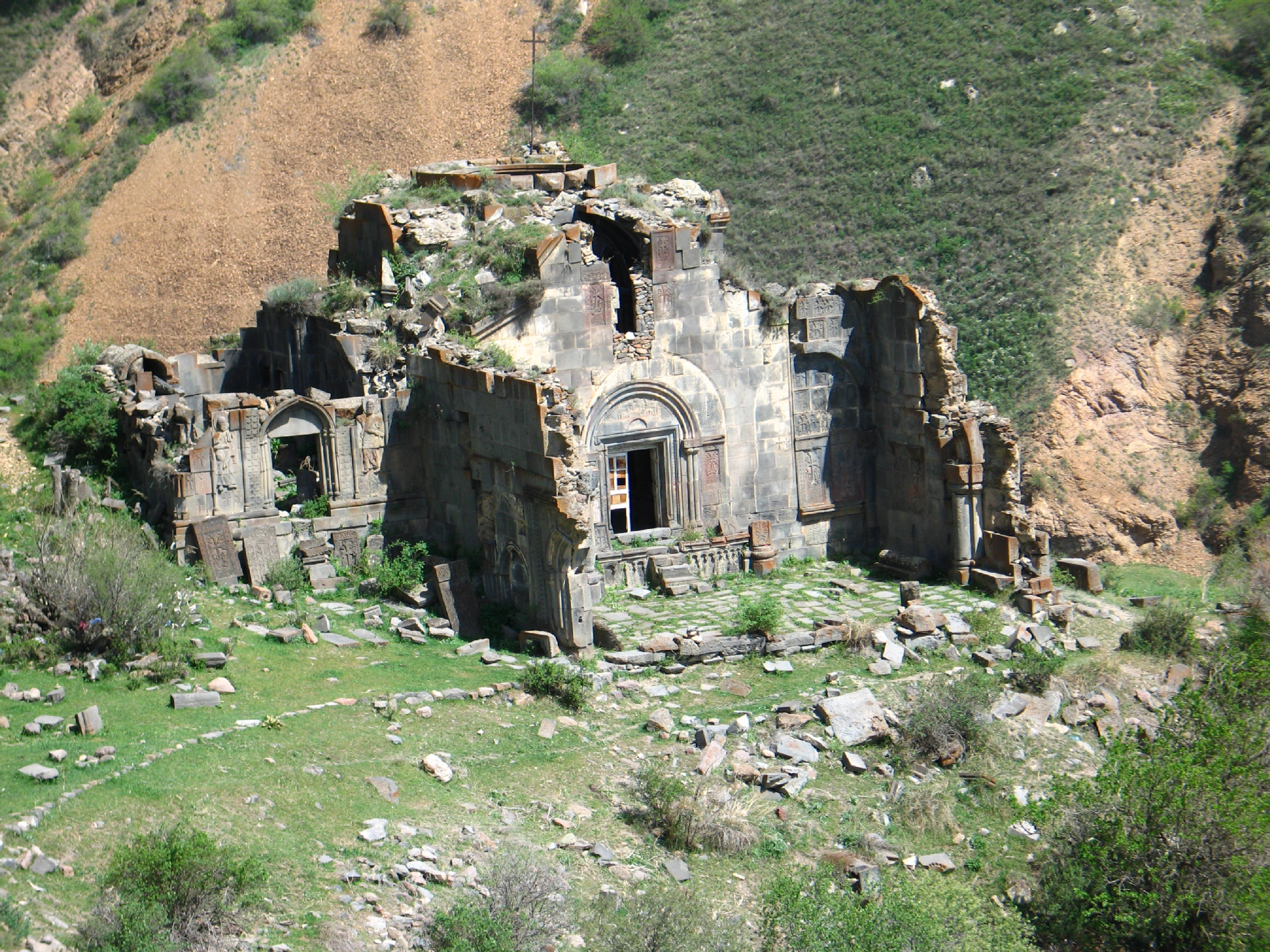 Աղջոց վանք 99.1/1.1